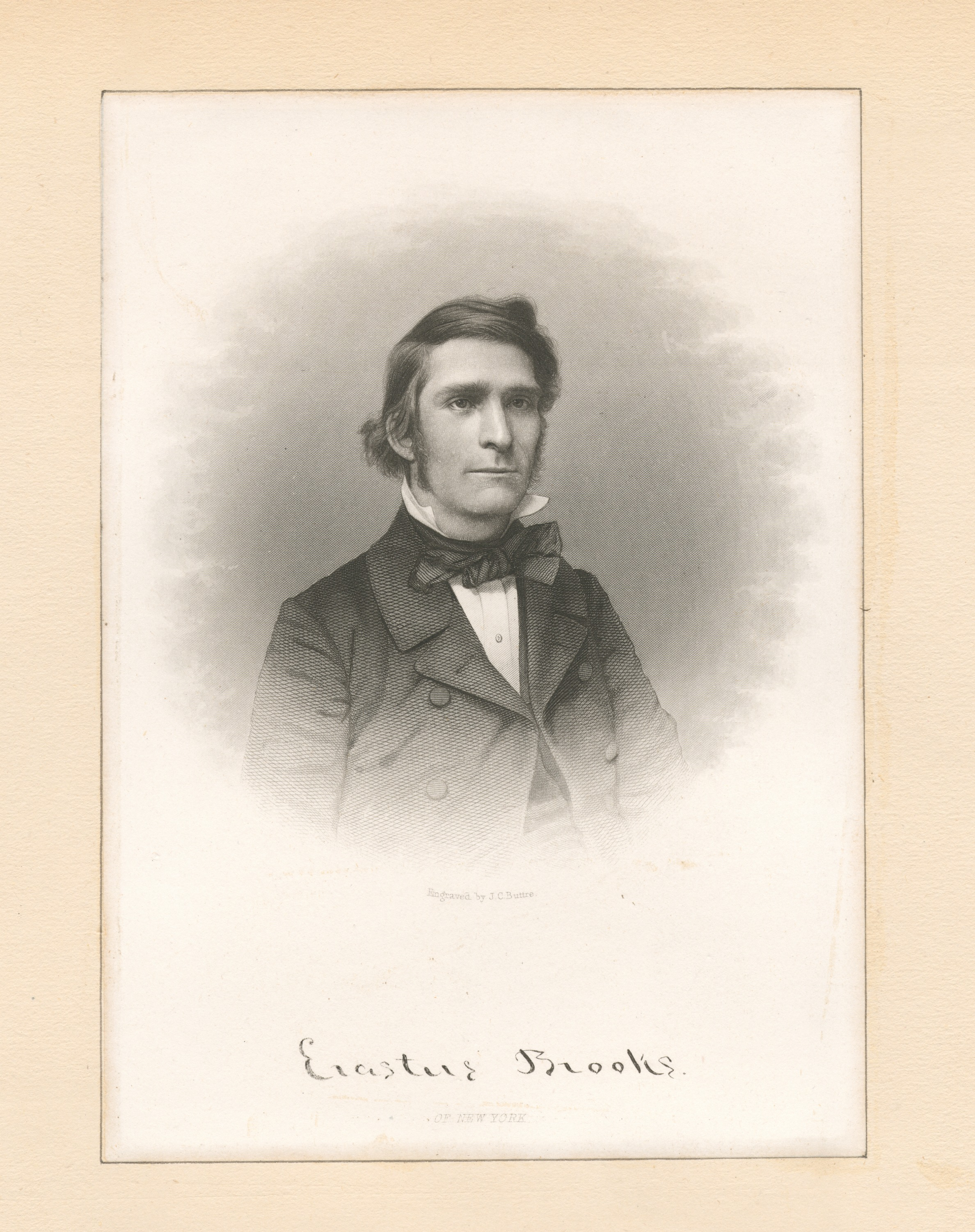 EM11505 Statement of responsibility : J.C. Buttre